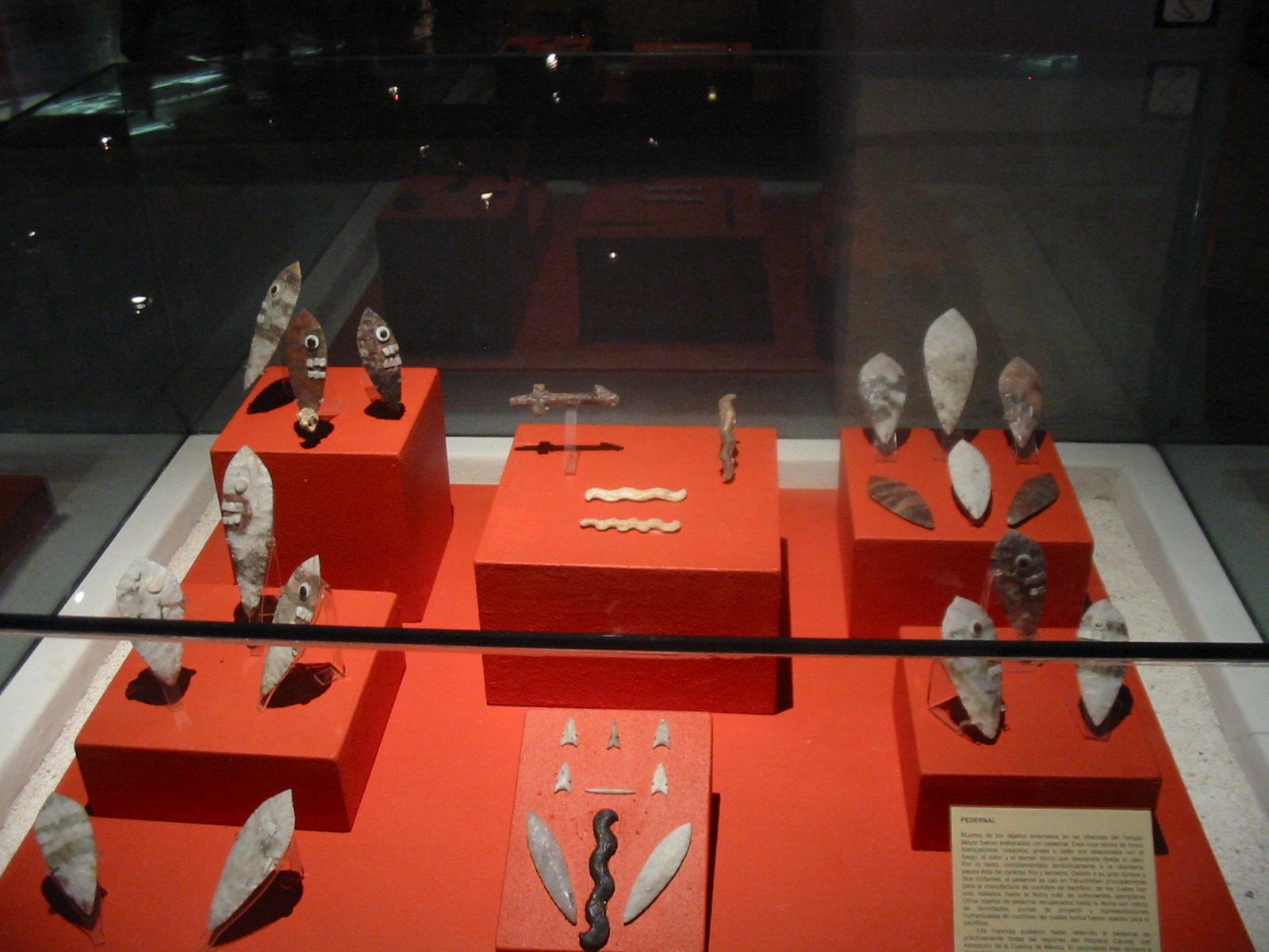 stone blades called "pedernales" on display at the museum of the Templo Mayor in Mexico City. These blades were created for ritual uses, including human sacrifice and often decorated with faces.